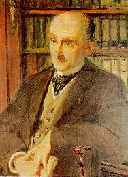 Portrait of Henri Bergson by Jacques-Émile Blanche, 1891.